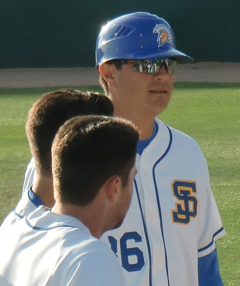 San Jose State baseball volunteer assistant coach and former Major League Baseball player Anthony Claggett during a home game against San Diego State on May 6, 2017 in Municipal Stadium in San Jose, California.